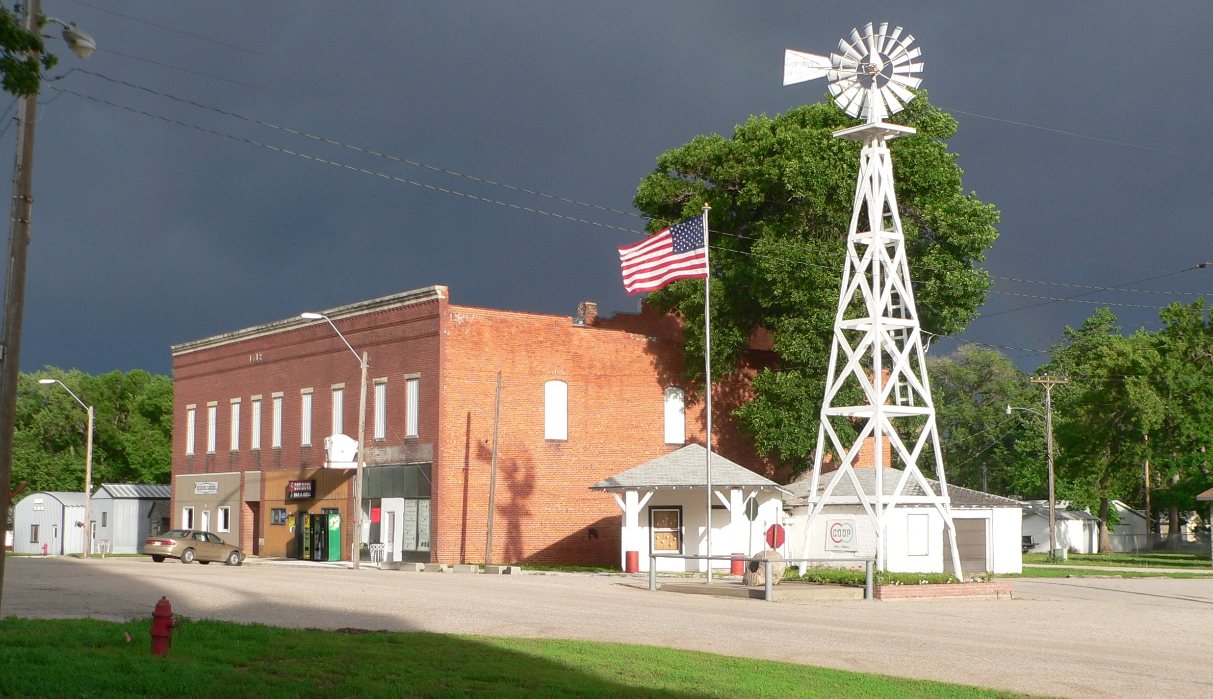 Downtown Cordova, Nebraska: Hector Street, looking southeast from west of intersection with Helen Street.